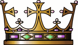 French vidame crown.